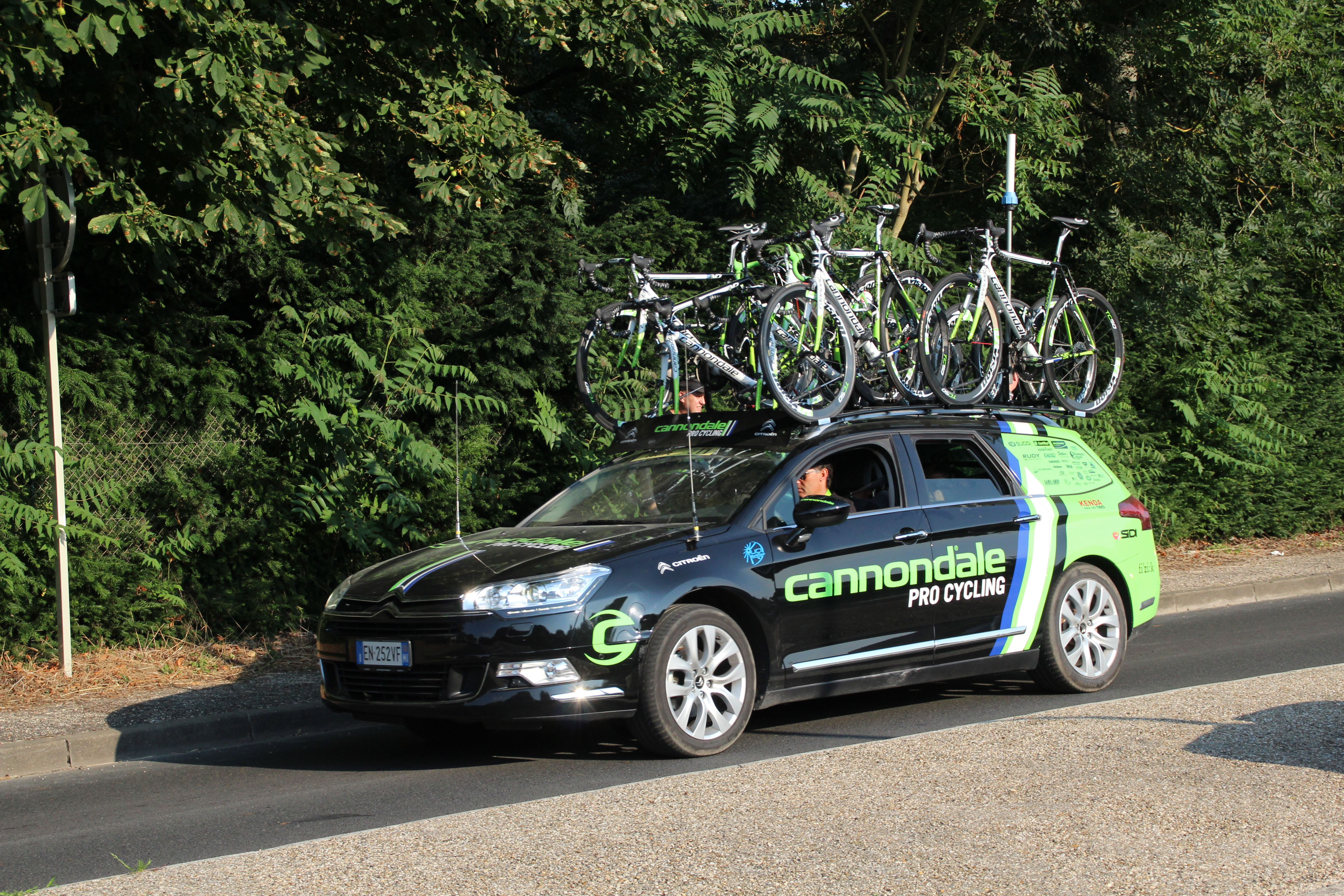 Tour de France 2013 sport event in Saint Rémy lès Chevreuse, France